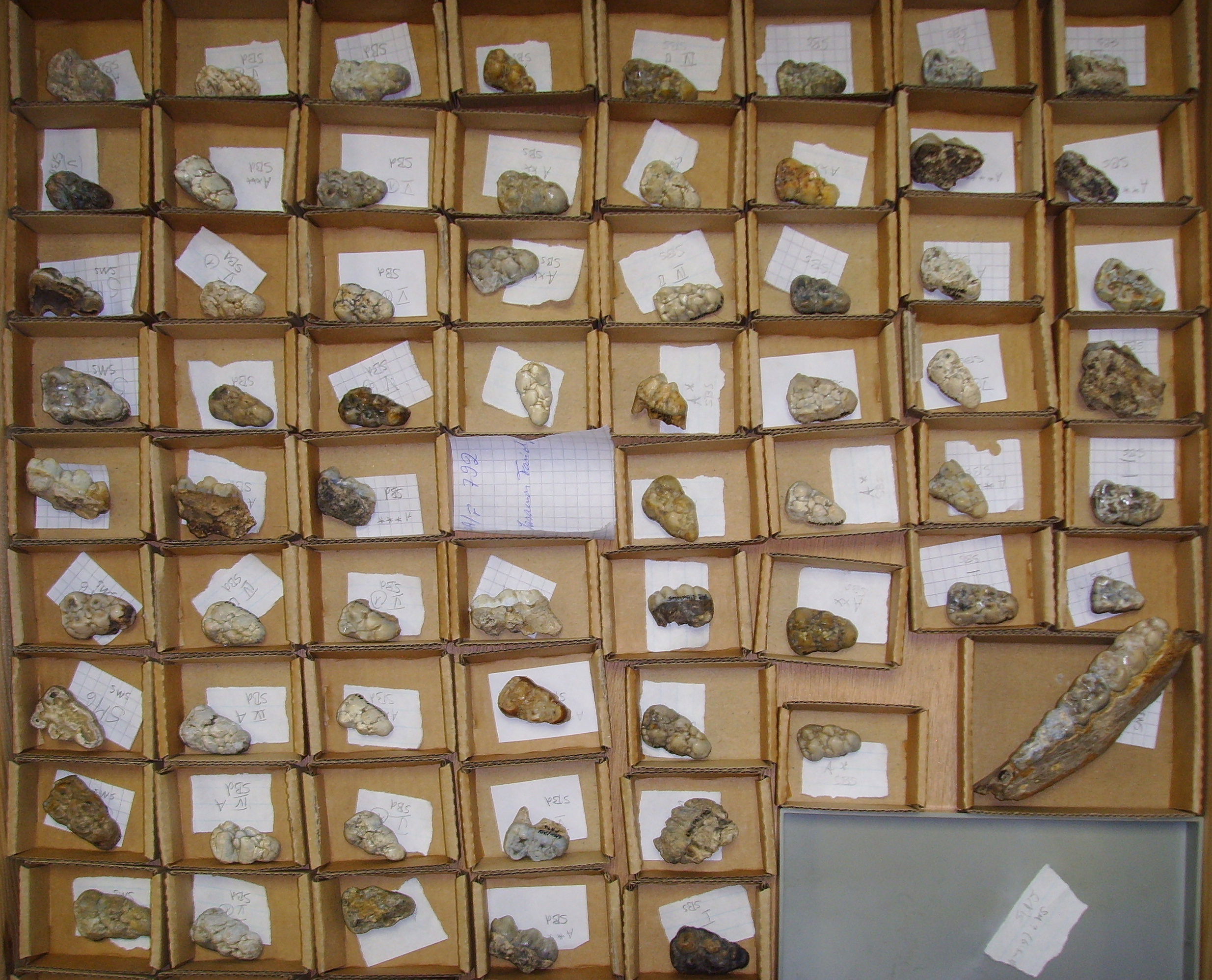 Fossil teeth of Indonesian pigs, found in the same stratum as the Sangiran hominins (Homo erectus). - Collection Koenigswald (from about 1930), Senckenberg-Museum, Frankfurt am Main, Germany.